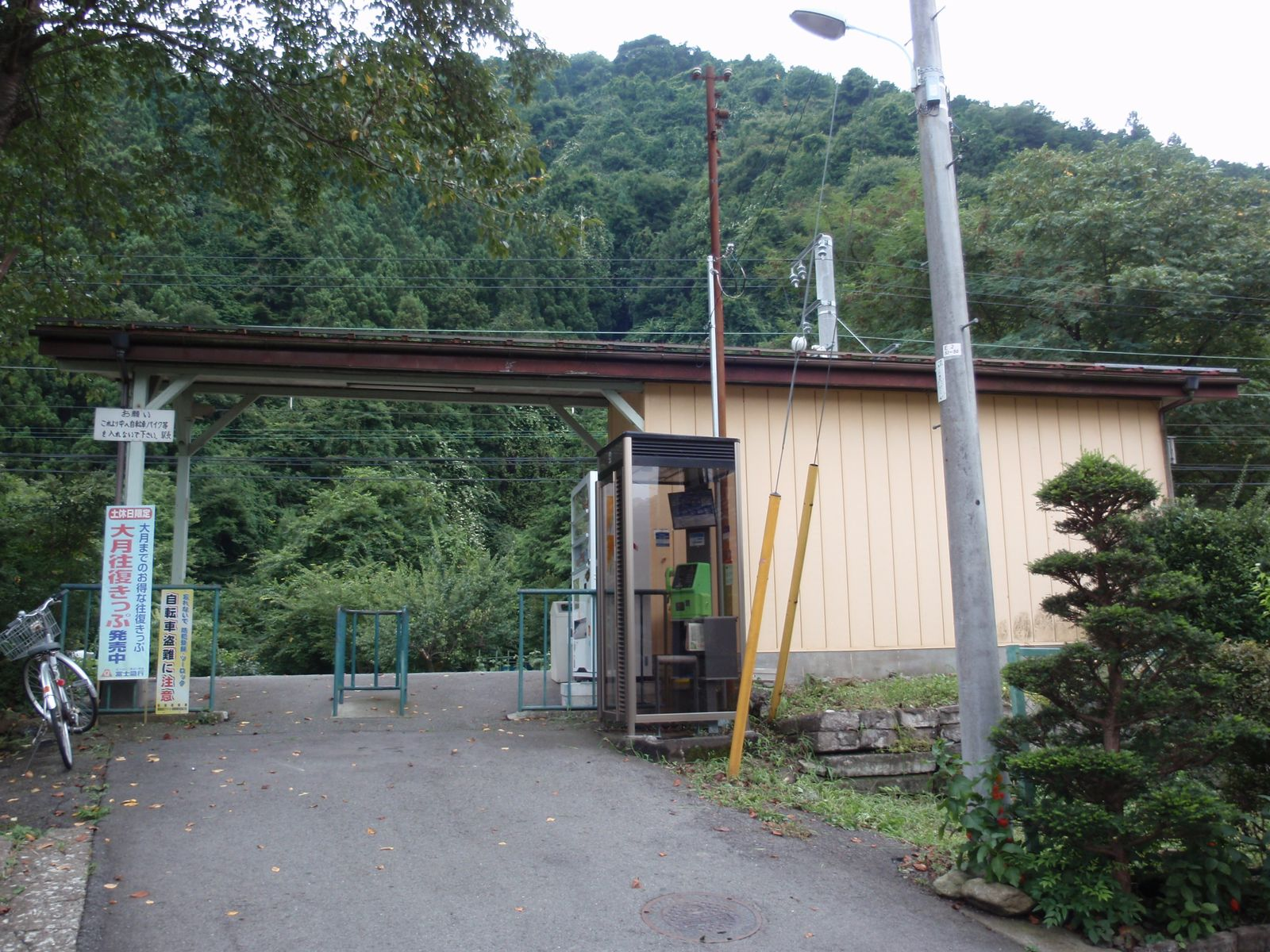 Tokaichiba Station on the Fujikyuko Line in Yamanashi Prefecture, Japan